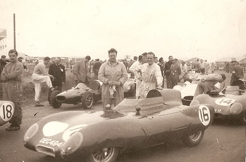 Lotus Elevens. Driver Cliff Allison. John Crosthwaite with oily rag. Graham Hill on left.